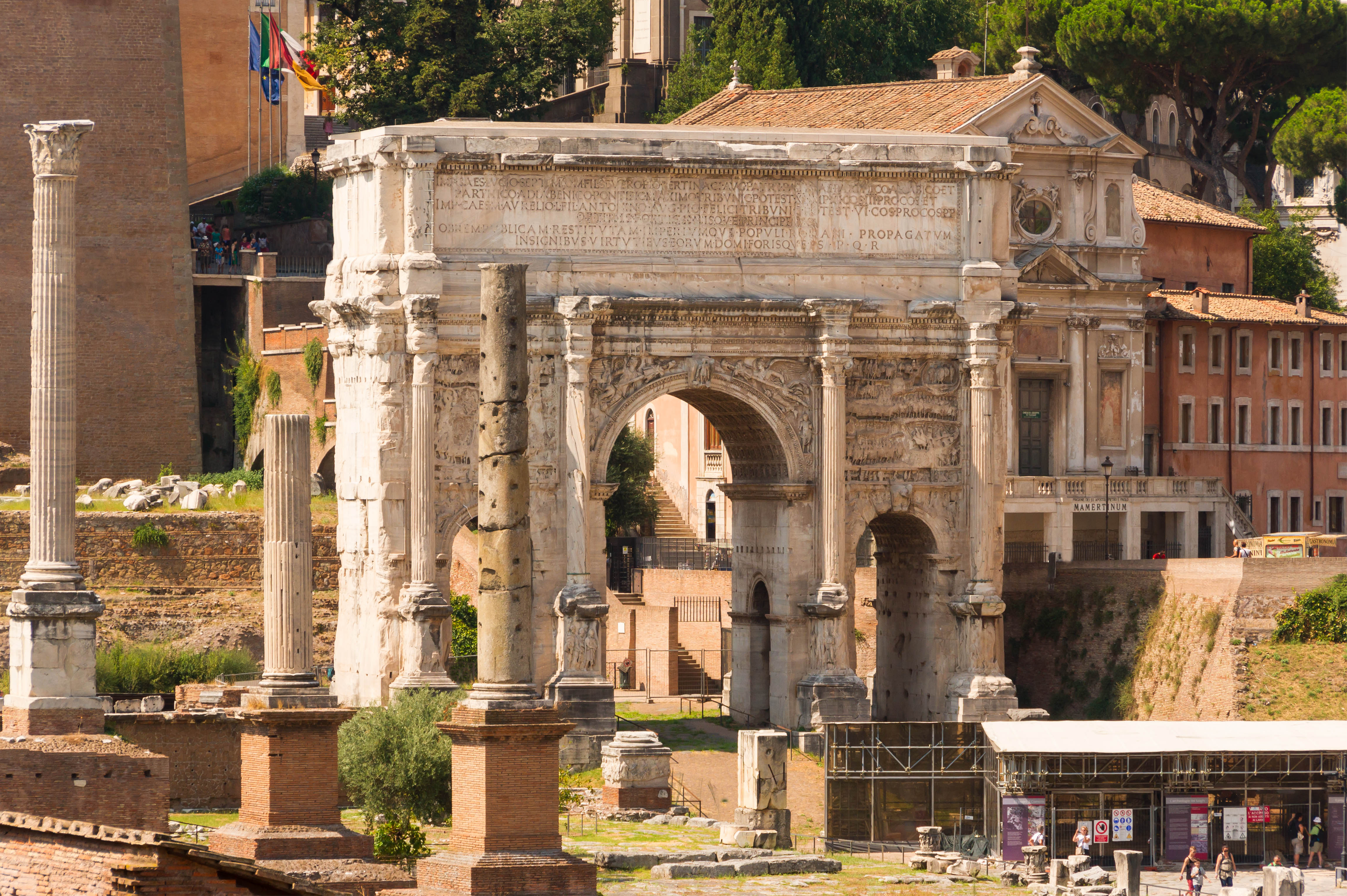 The Arch of Septimus Severus. The Column of Phocas at left, and the Mamertinum at right. Forum Romanum, Rome, Italy.